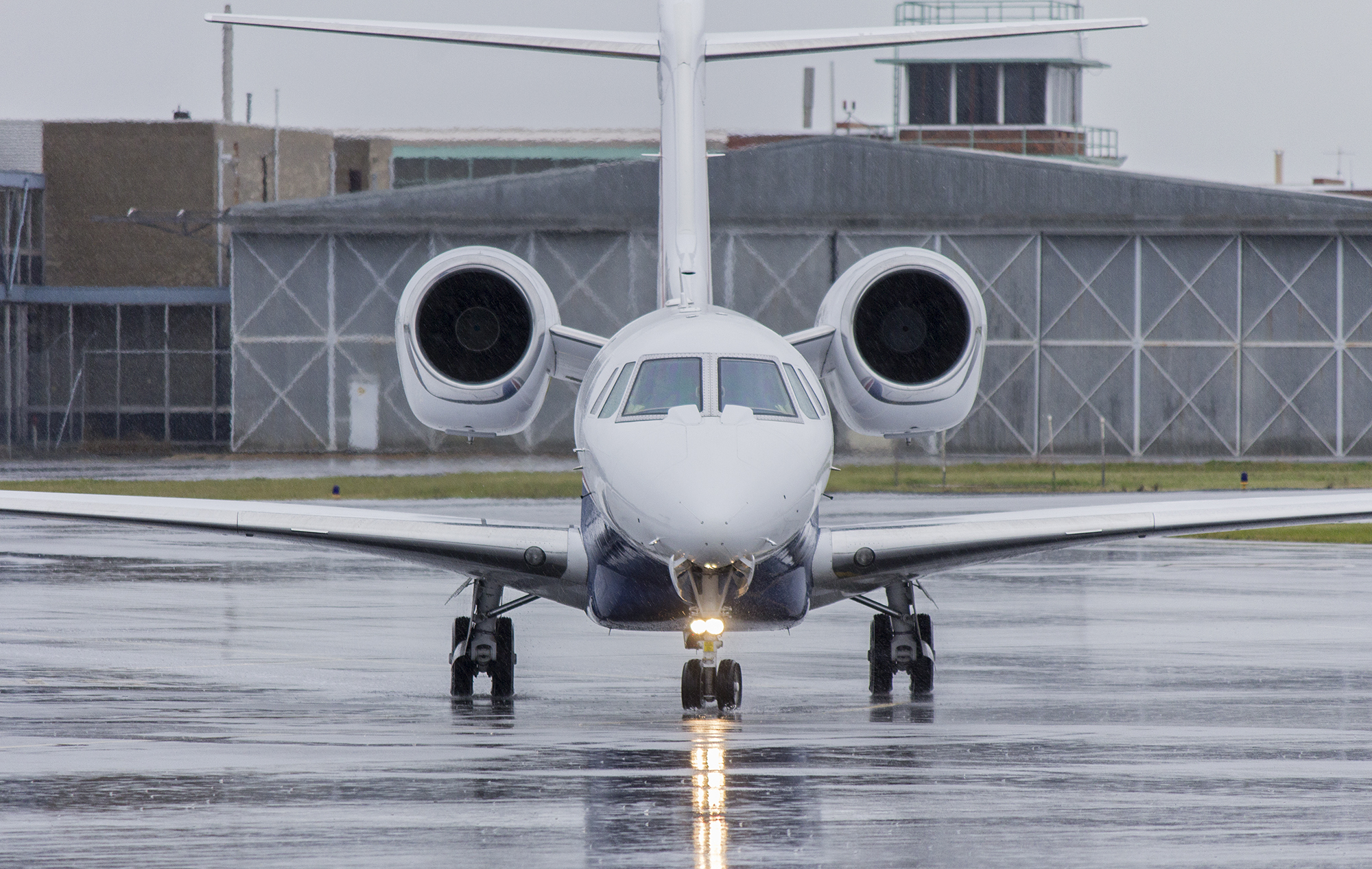 Queensland Nickel Pty Ltd (VP-CFP) Cessna 750 Citation X taxiing at Wagga Wagga Airport.